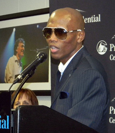 Zab Judah at post fight press conference at The Prudential Center in Newark, November 6, 2010